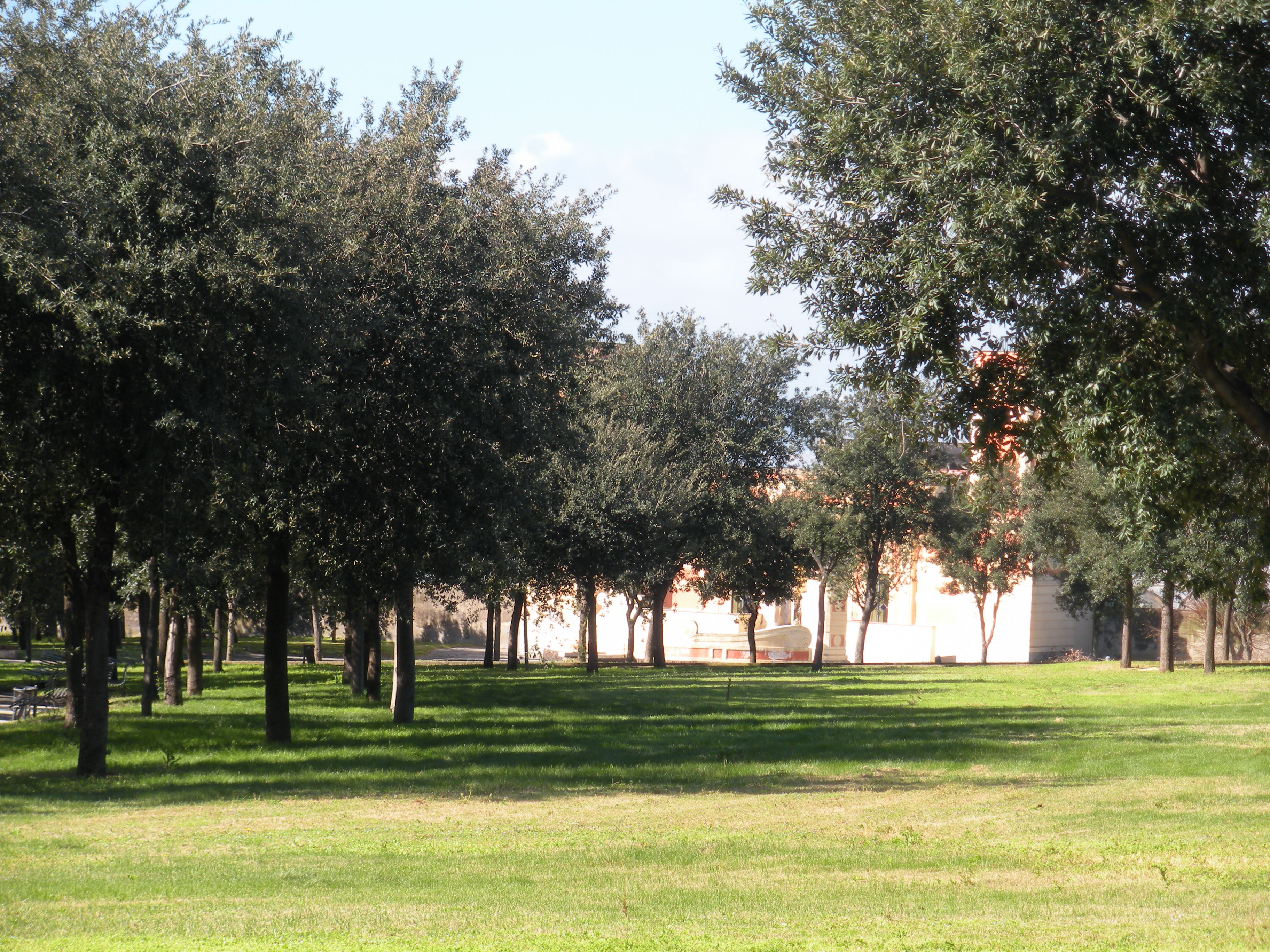 A side of the Parco sul Mare della Villa Favorita (Seaside Park of Villa Favorita) in Ercolano